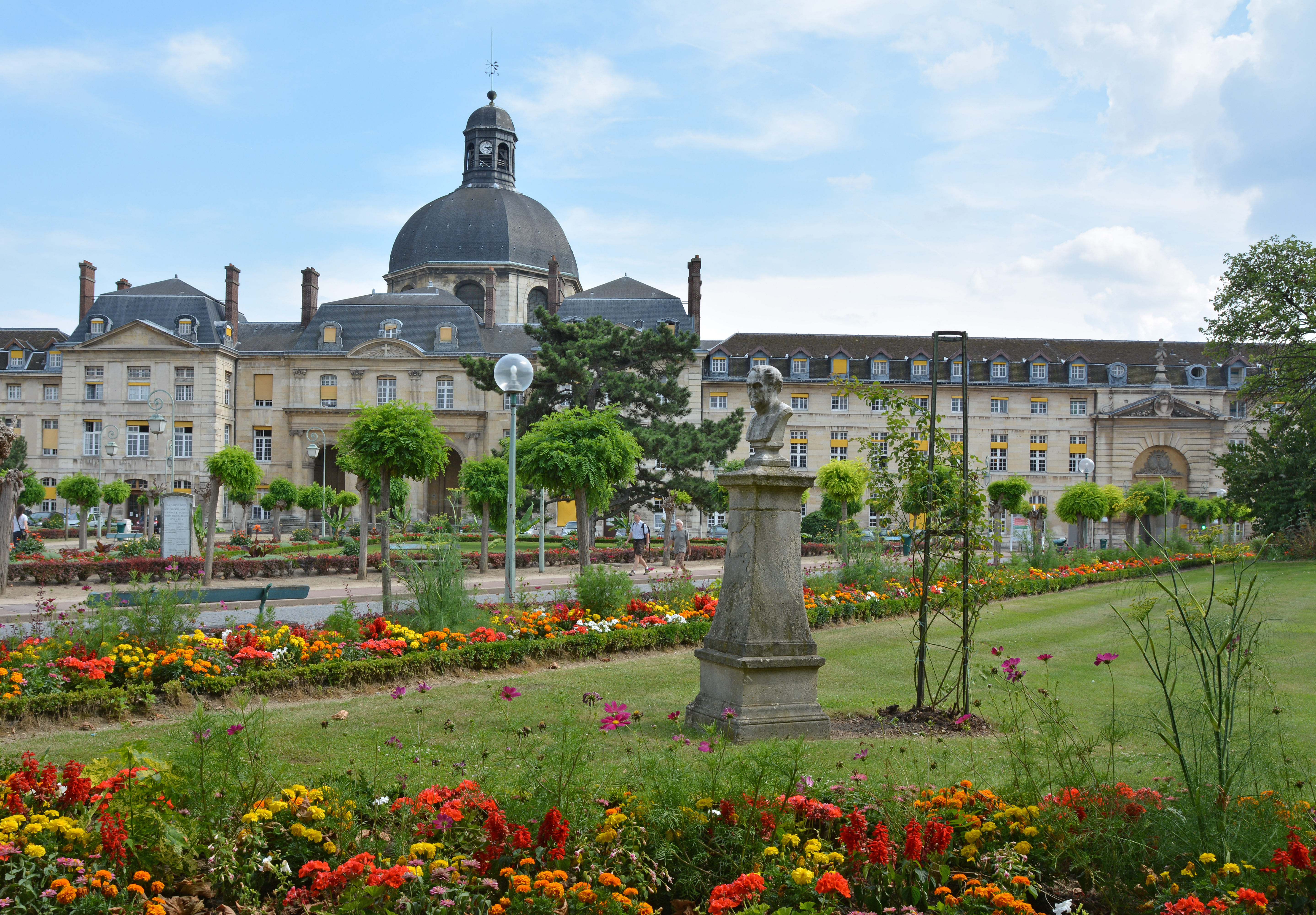 Hôpital de la Salpêtrière, Paris 13th arrondissement, France .